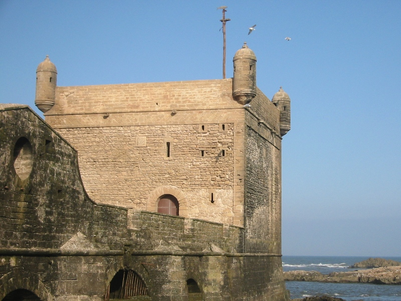 Essaouira image. Personal photograph, 2002. Released in the Public Domain.